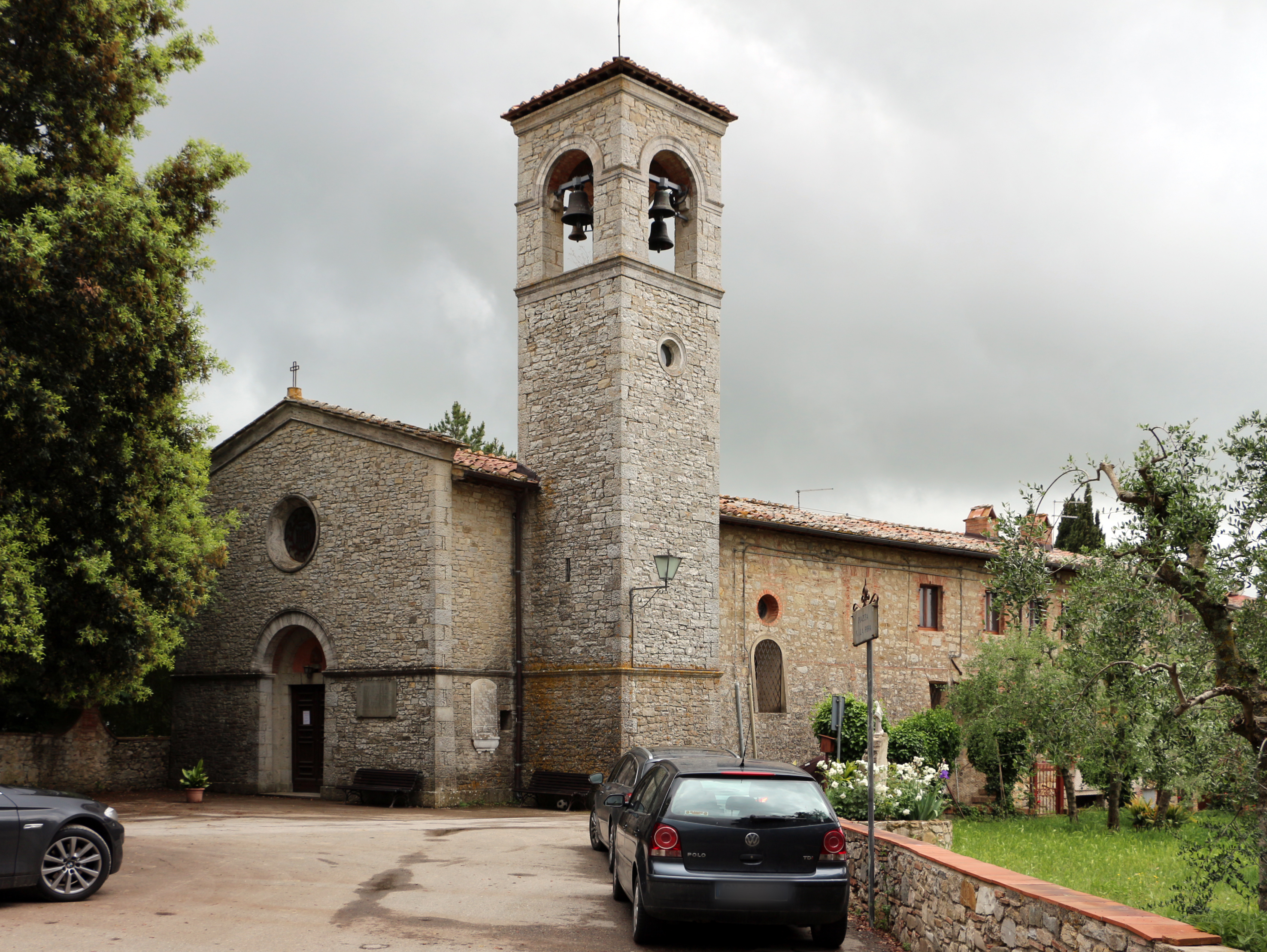 Fonterutoli